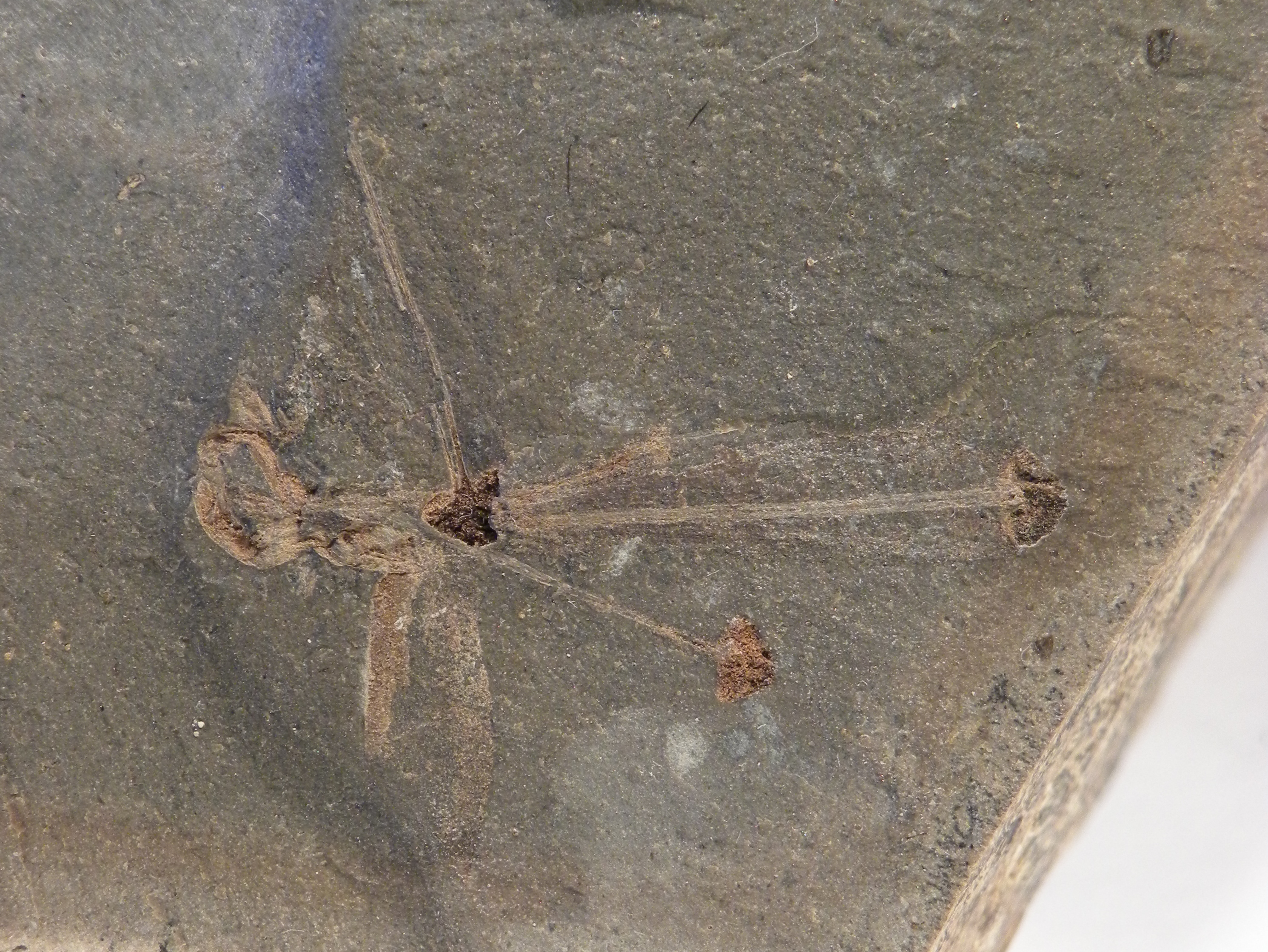 Fosselised flower, Early Eocene Fur Formation, Denmark